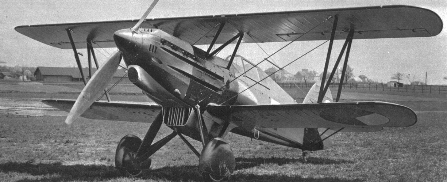 Czechoslovak Avia B-534 fighter aircraft, 3rd variant.